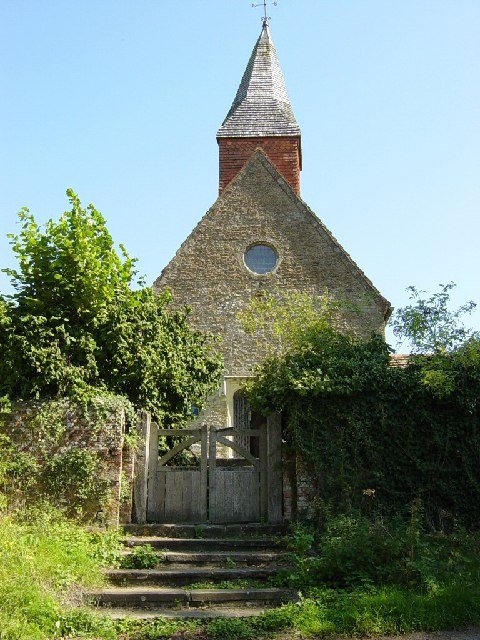 Holy Sepulchre Church, Warminghurst. Dating from the 12th century this church held its last service in 1979. It is maintained by the Church Conservation Trust and is open to visitors during the week.